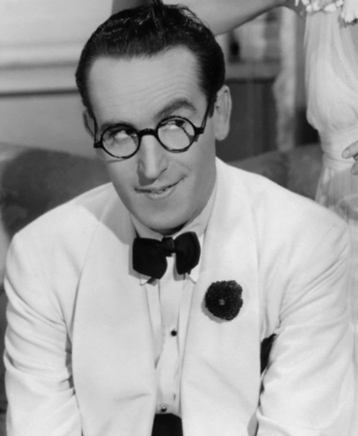 Harold Lloyd in The Milky Way (1936) - cropped screenshot